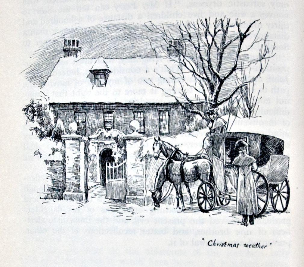 "Christmas weather". Austen, Jane. Emma. London: George Allen, 1898, page 112.